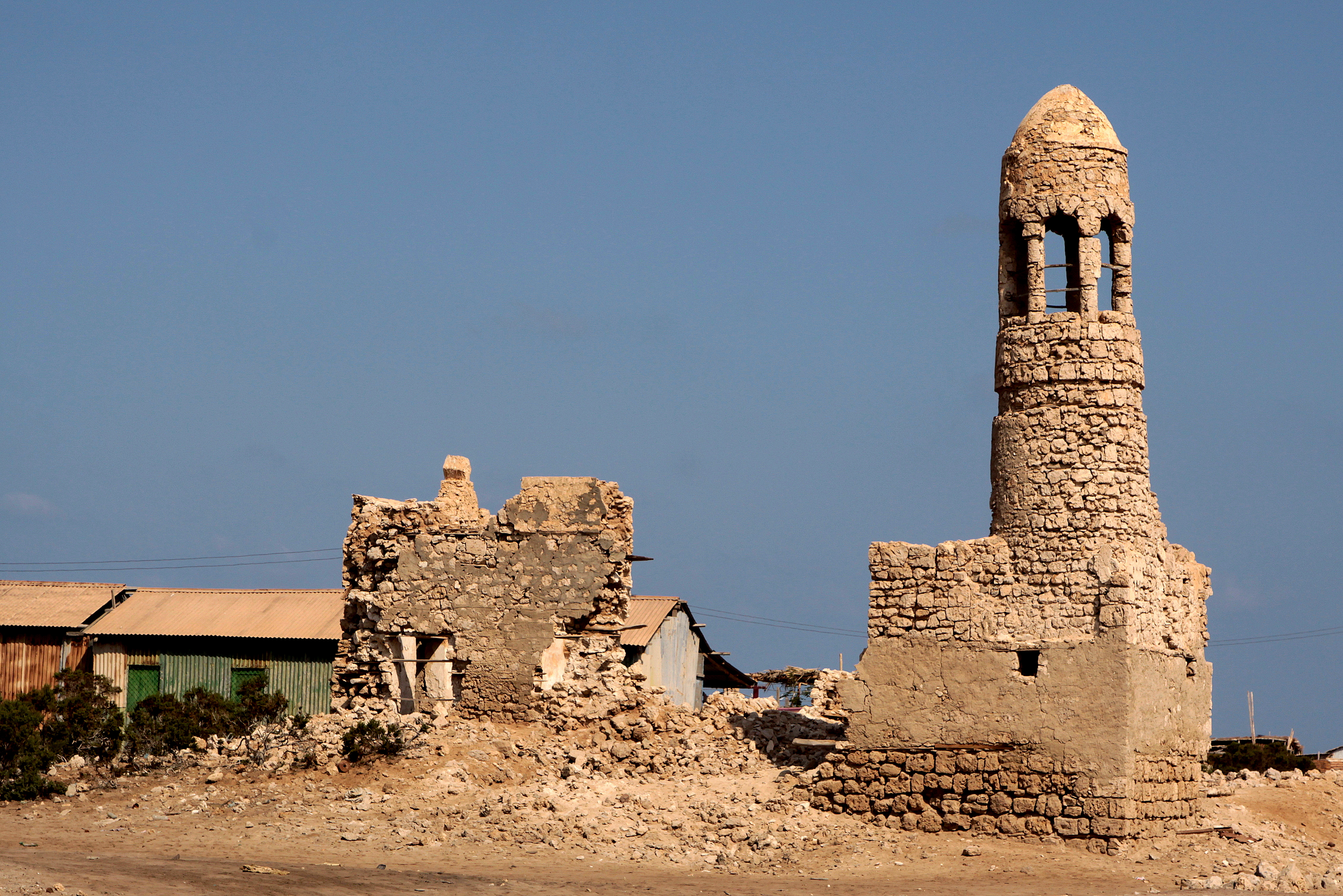 Photo of the ancient mosque of Zeila in Somaliland.